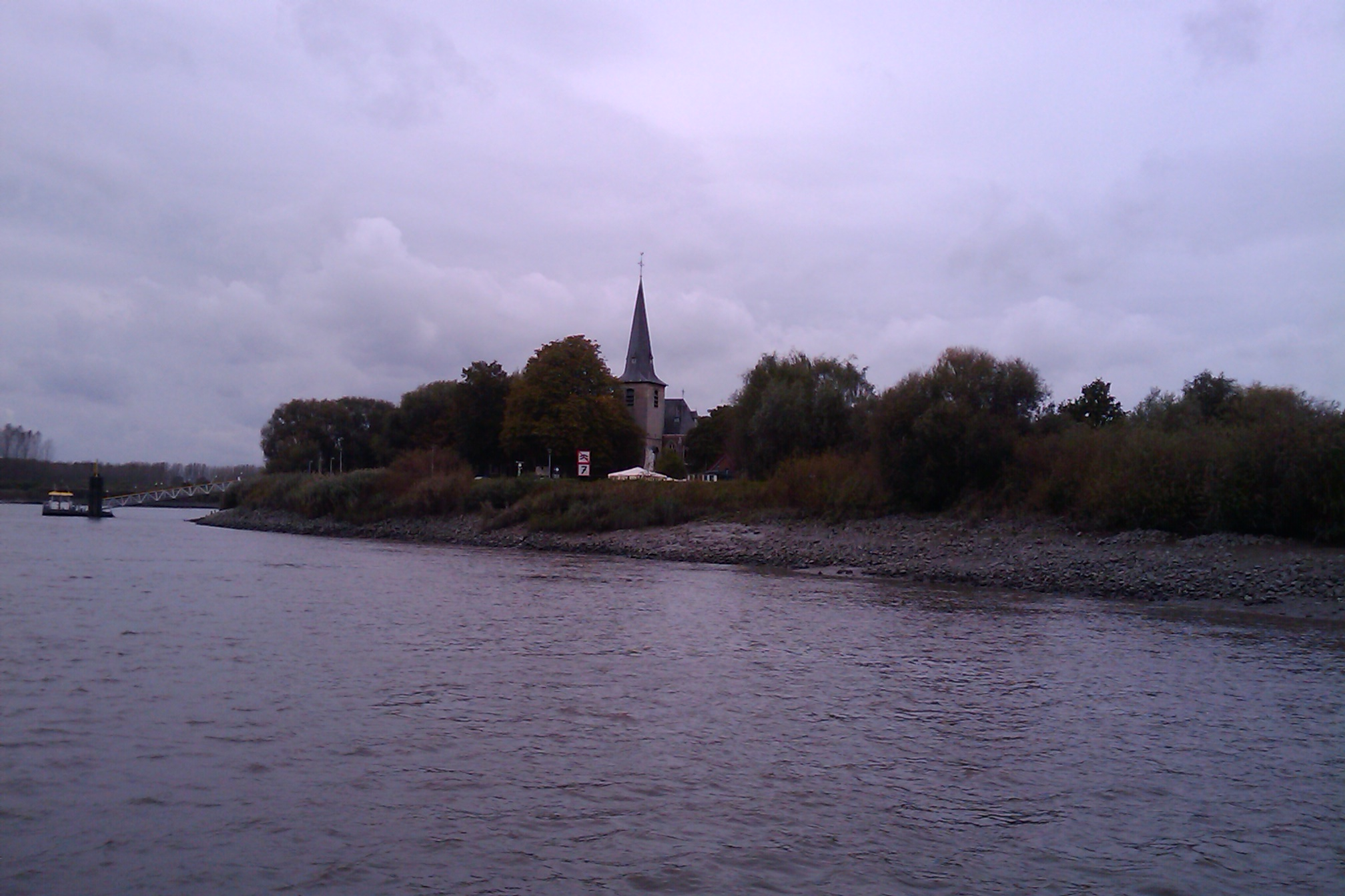 Church of Mariekerke (Belgium) from the Schelde river.